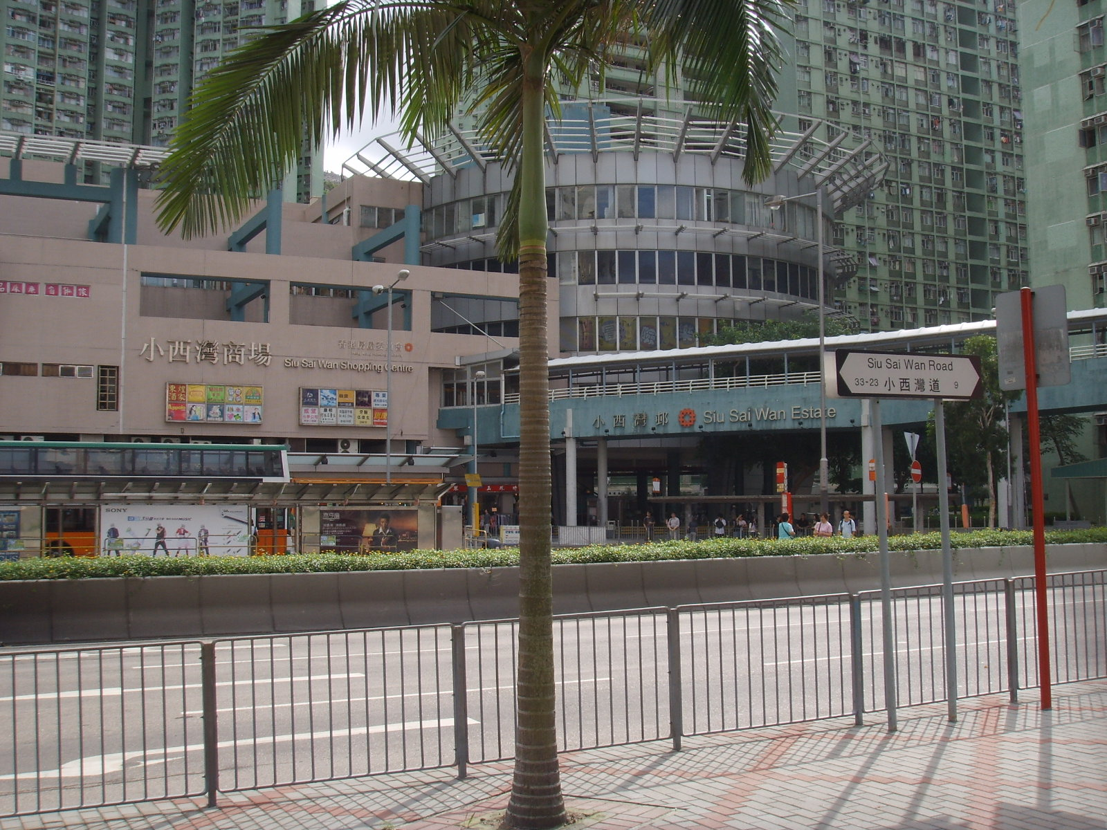 A scene of Siu Sai Wan Estate in Siu Sai Wan, Hong Kong, taken on 16th June, 2006.